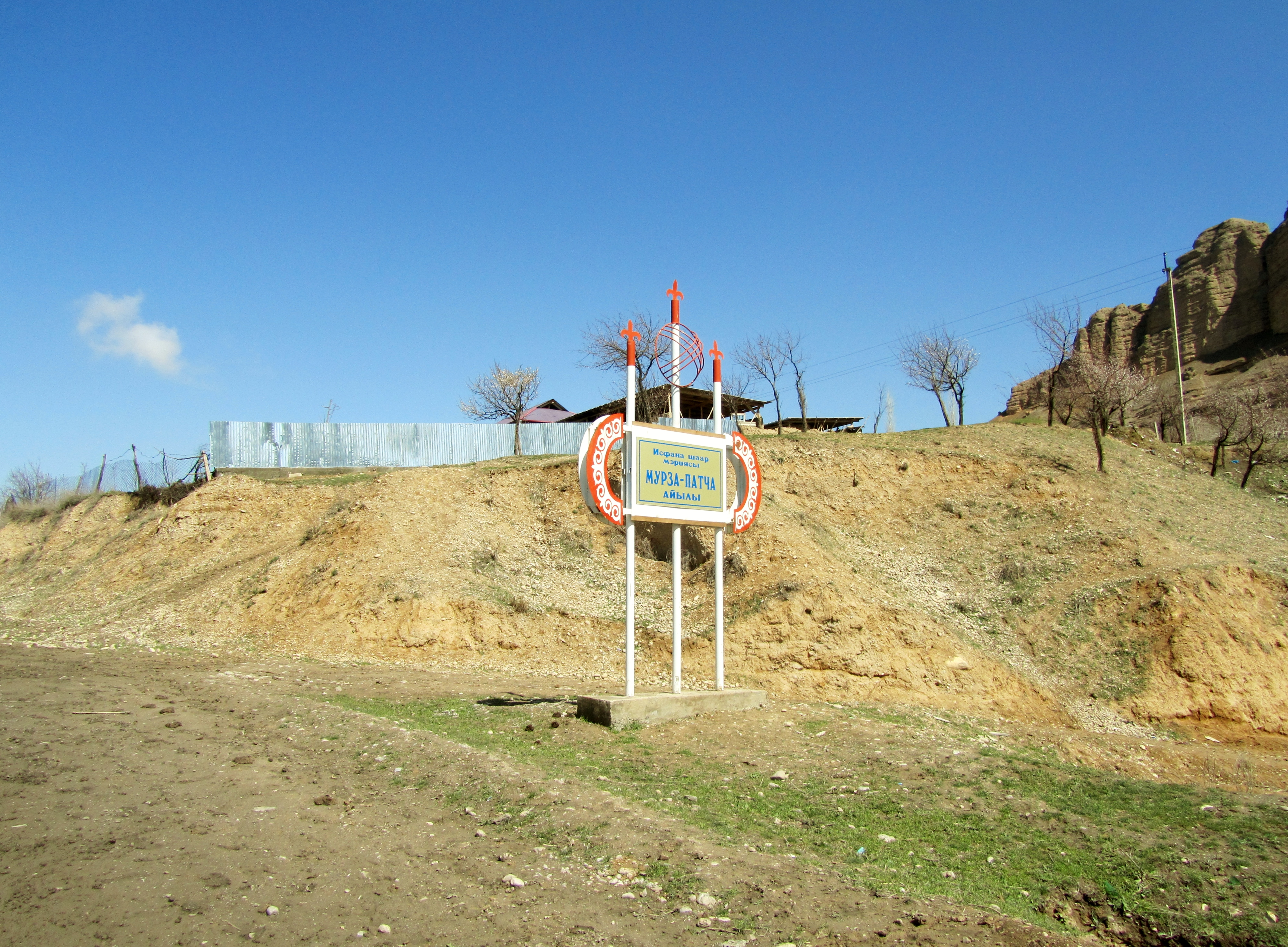 The sign in the southern end of the village of Myrza-Patcha. Leilek District, Kyrgyzstan.